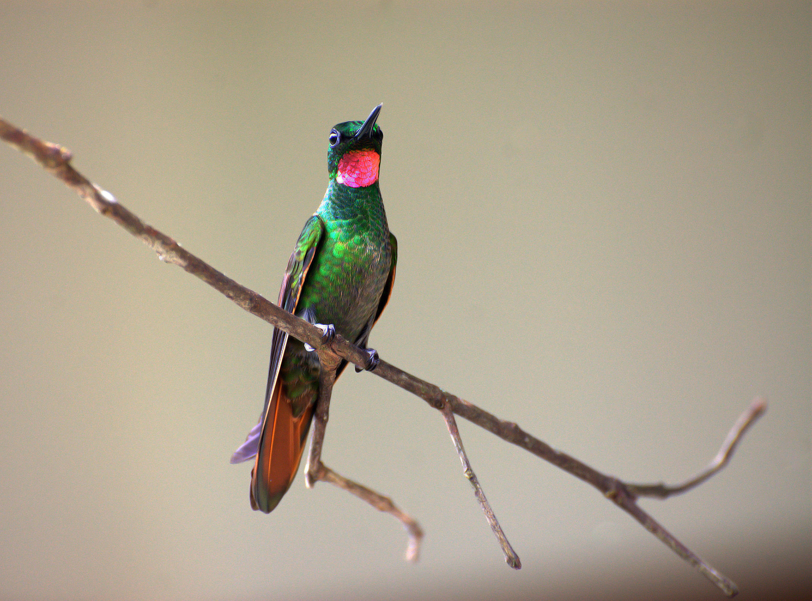 A male Brazilian Ruby in Ubatuba, São Paulo, Brazil.